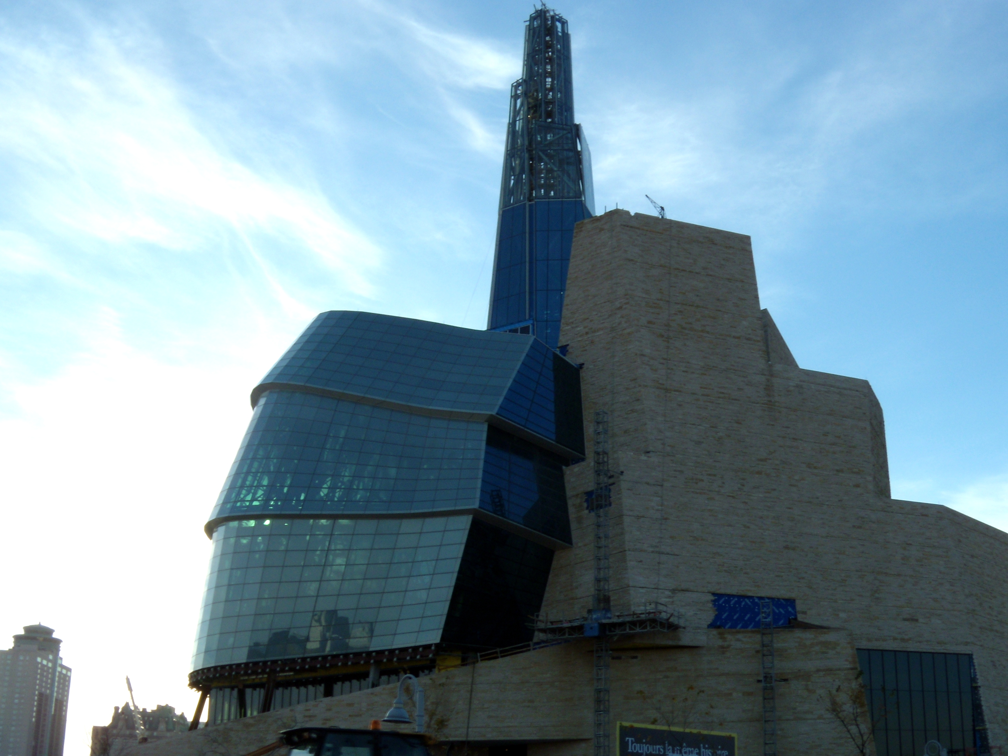 Canadian Museum for Human Rights under Construction in Winnipeg, Manitoba